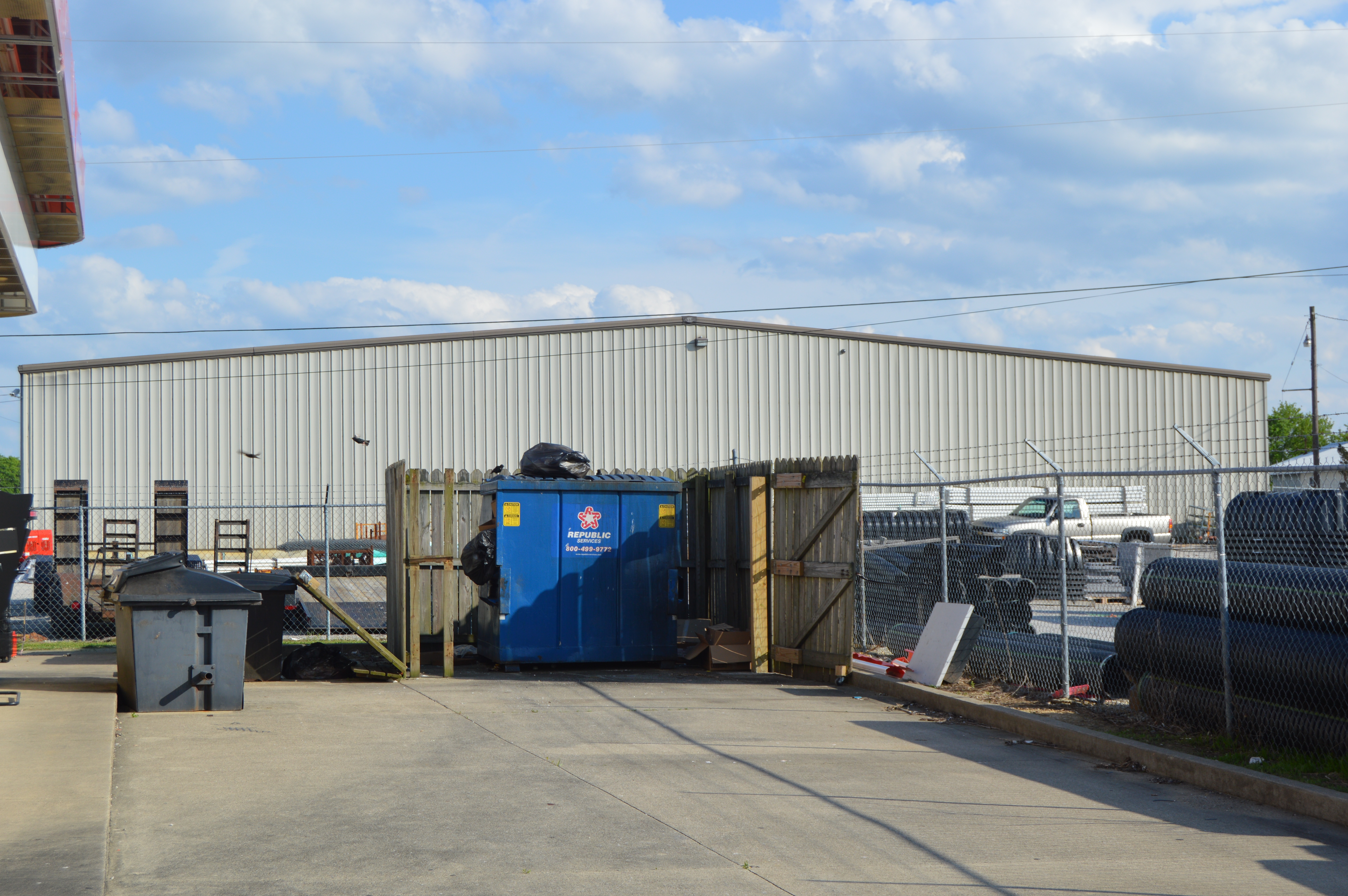 Site of the Thomas H. Hanks House, which was formerly located at 516 E. Woodford Street (U.S. Route 62) in Lawrenceburg, Kentucky, United States. Built in 1858, it was listed on the National Register of Historic Places in 1980, and it has not yet been removed from the Register despite its destruction.